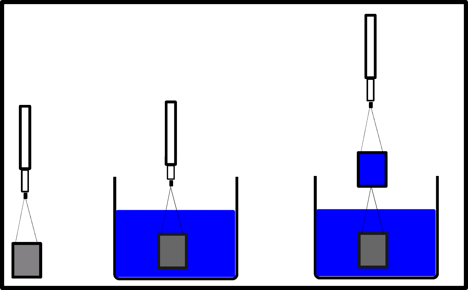 Arhimede's law